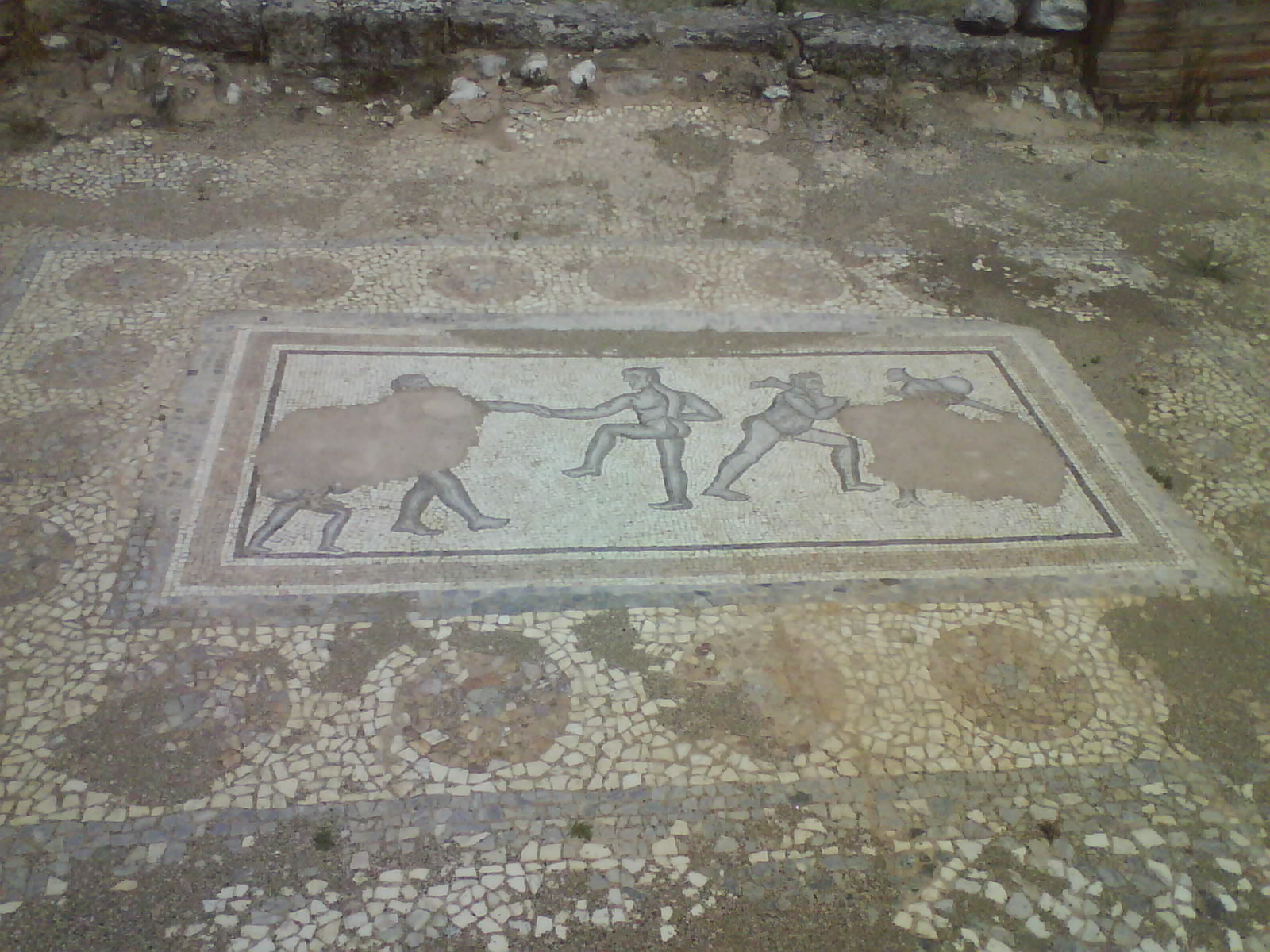 Mosaic from Dion Archeological site